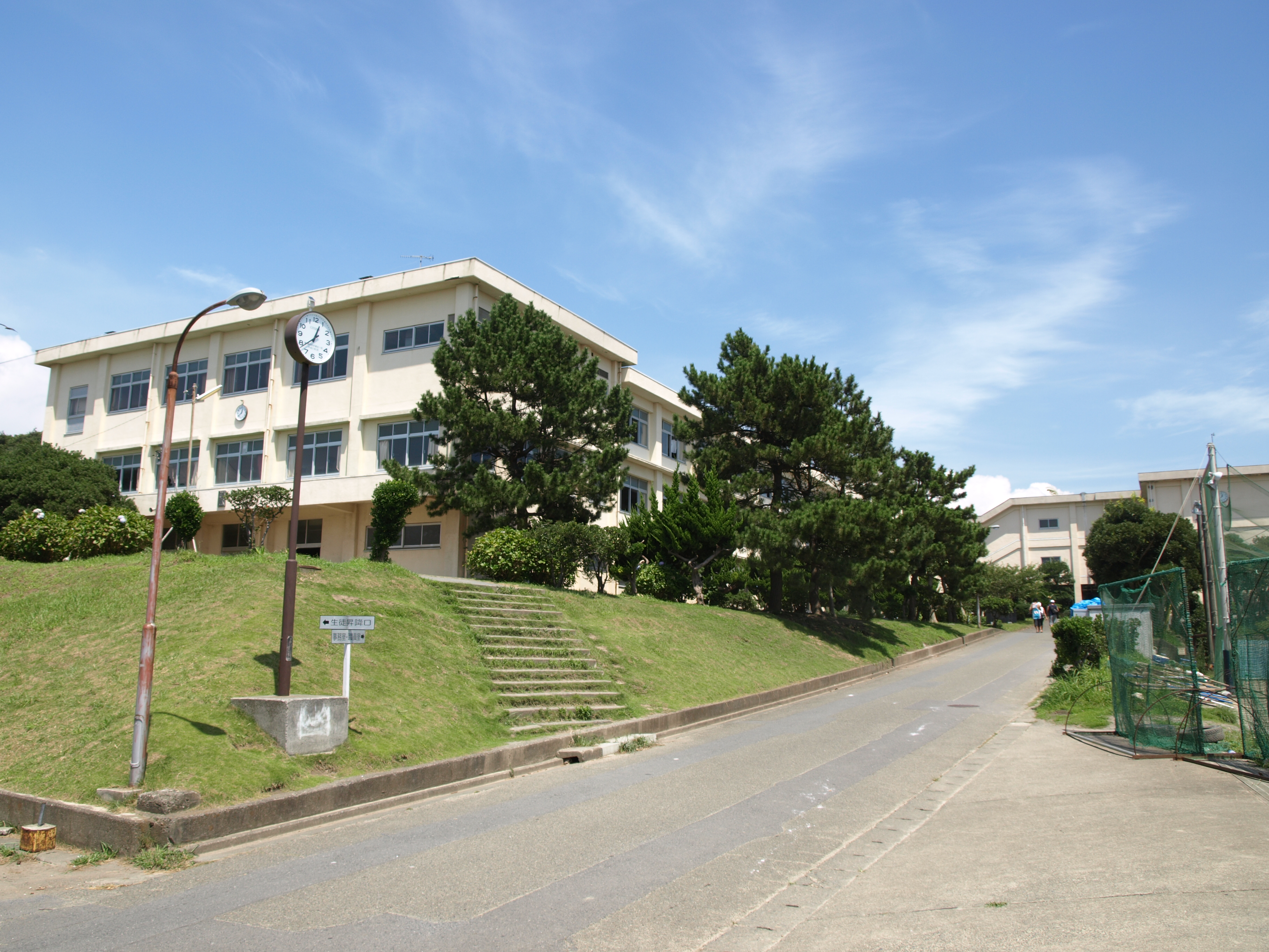 Kamakura High School